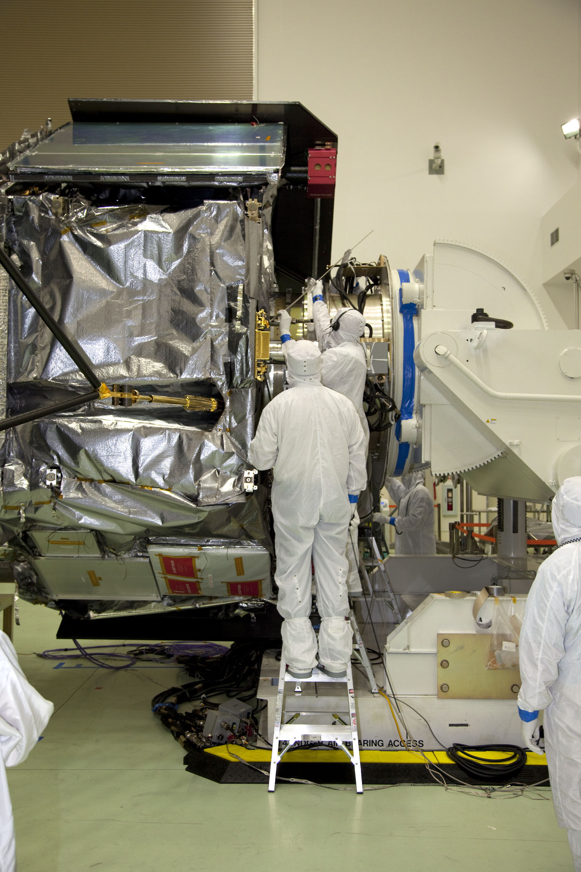 TITUSVILLE, Fla. -- Lockheed Martin technicians in the Astrotech payload processing facility in Titusville, Fla., install the Radio and Plasma Wave Sensor, called WAVES for short, on to NASA's Juno spacecraft. WAVES is a science boom instrument that will measure radio and plasma waves emitting from Jupiter. Juno is scheduled to launch aboard an Atlas V rocket from Cape Canaveral, Fla., on Aug. 5, 2011, reaching Jupiter in July 2016. Juno is scheduled to launch aboard an Atlas V rocket from Cape Canaveral, Fla., on Aug. 5, 2011, reaching Jupiter in July 2016. The spacecraft will orbit the giant planet more than 30 times, skimming to within 3,000 miles above its cloud tops, for about one year. With its suite of science instruments, the spacecraft will investigate the existence of a solid planetary core, map Jupiter's intense magnetic field, measure the amount of water and ammonia in the deep atmosphere, and observe the planet's auroras. For more information visit